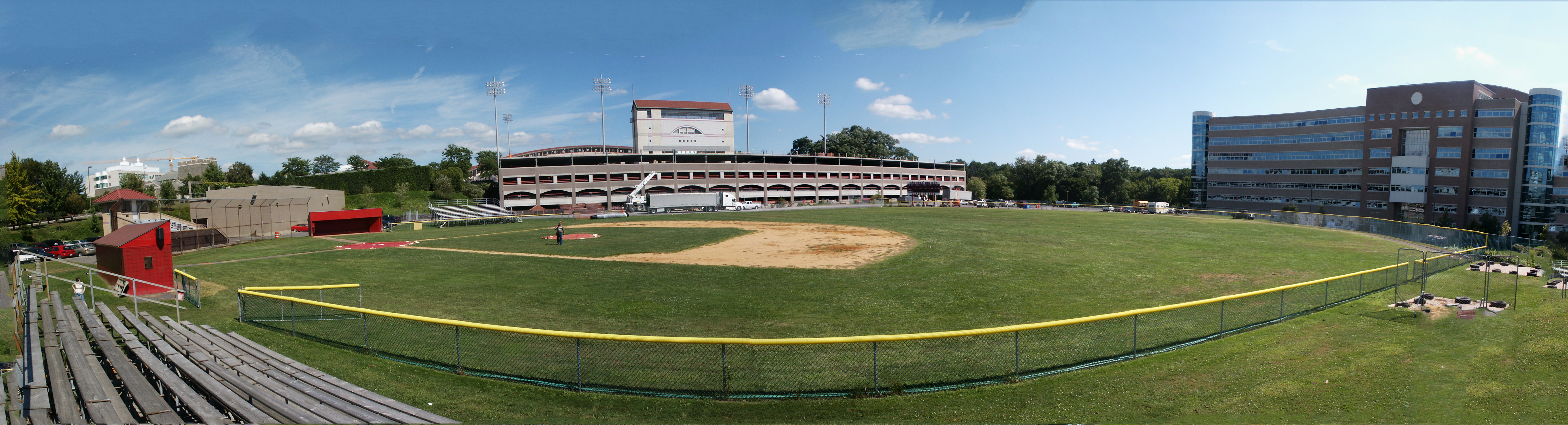 Taken by User:Xtreambar on August 21, 2006 at Cornell University. The picture is of Hoy Field. All rights released. Free to distribute, copy, and edit.